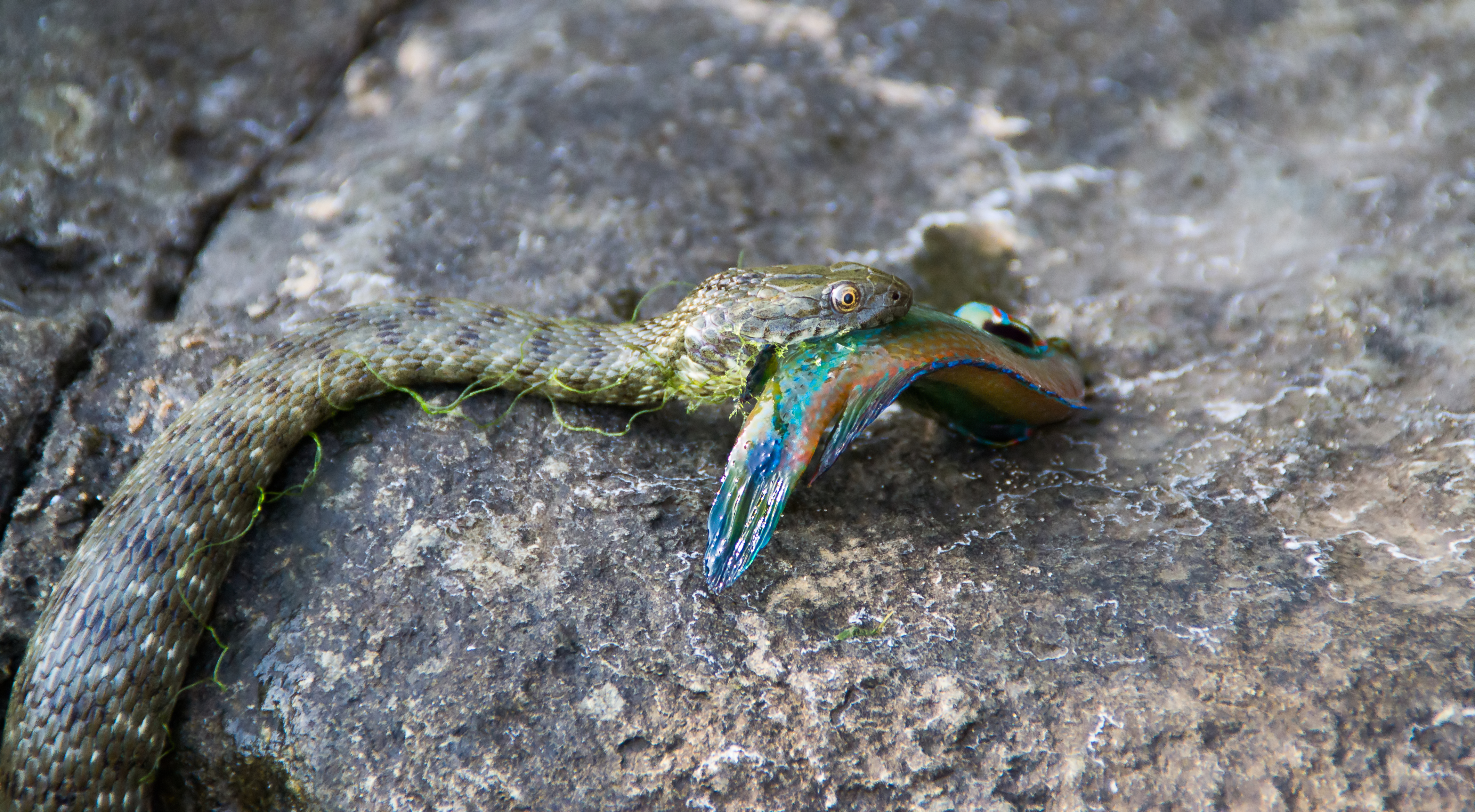 A Dice Snake (Natrix Tessellata) eating an Ocellated Wrasse (Symphodus Ocellatus)